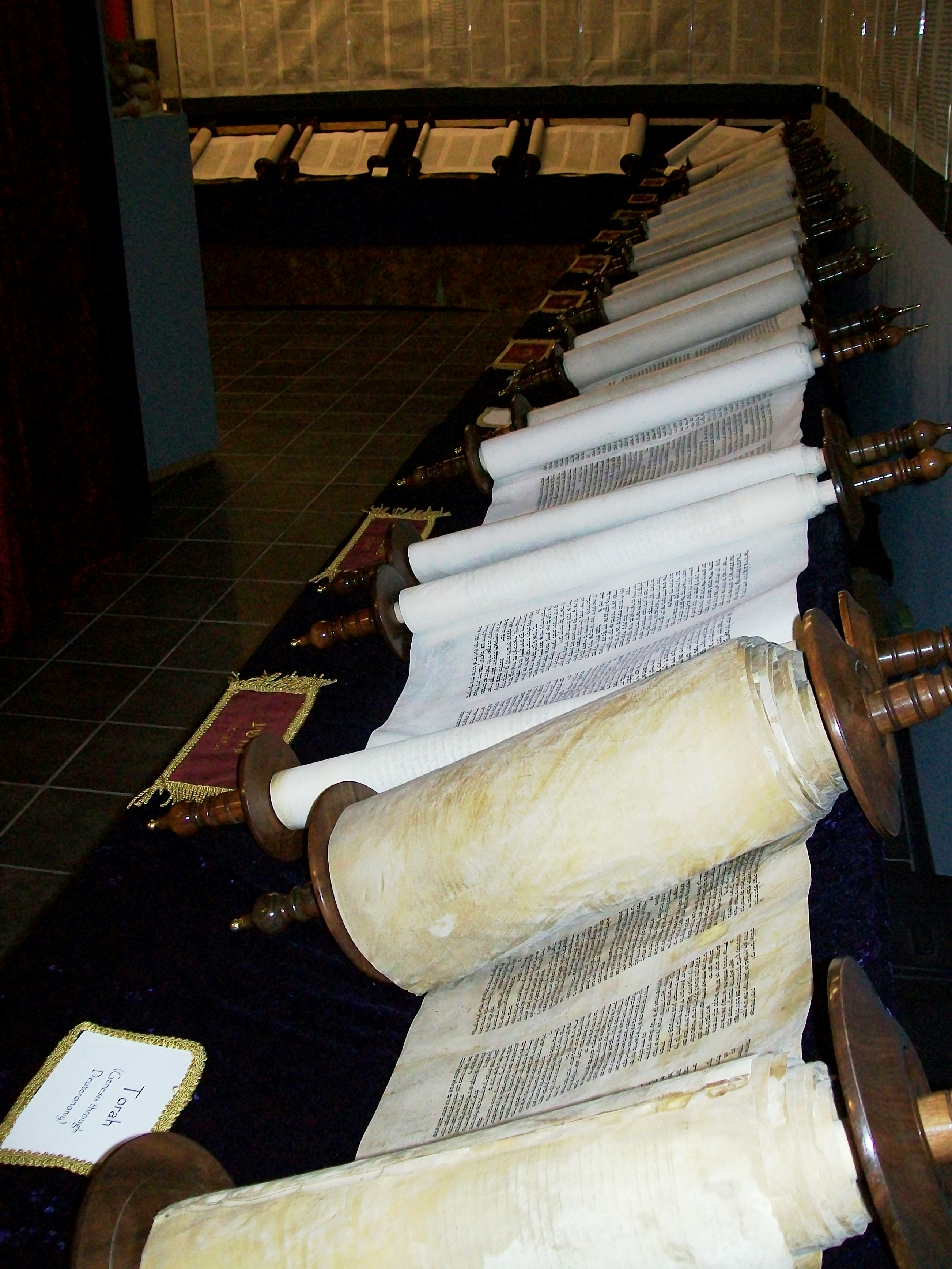 Set of scrolls comprising the entire Tanakh